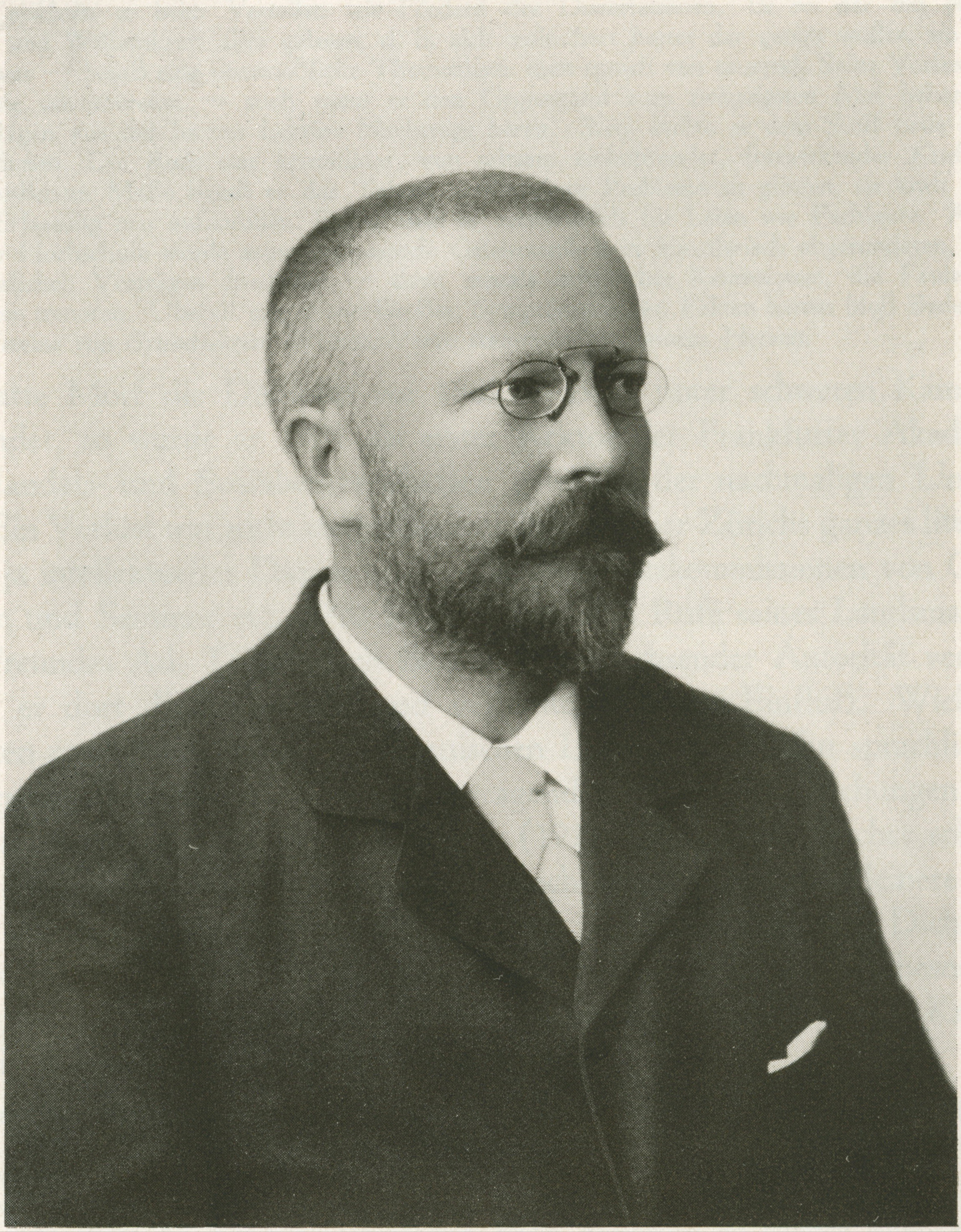 Portrait of Heinrich Morf (1854–1921)